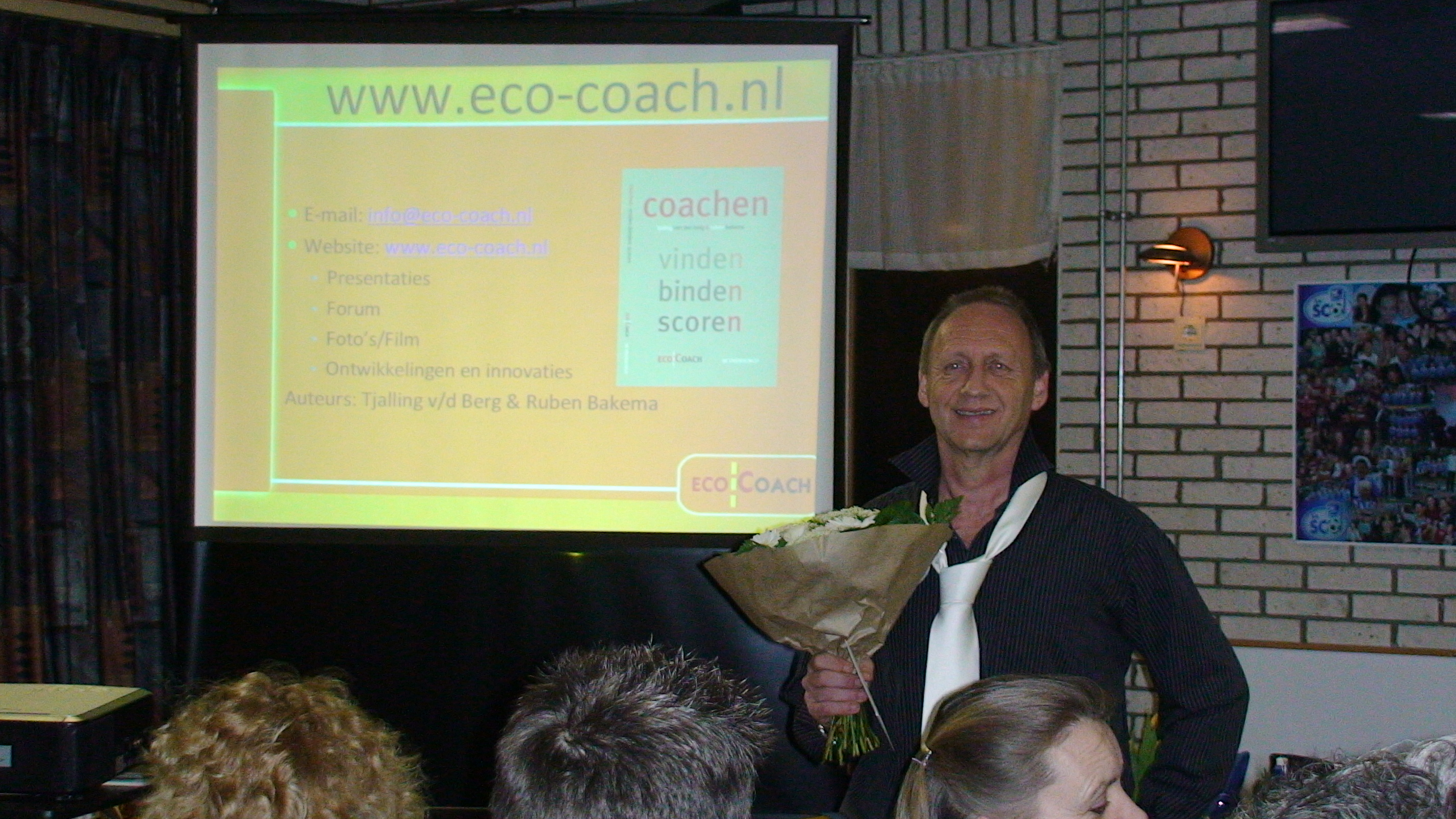 Tjalling van den Berg, ECO-COACH